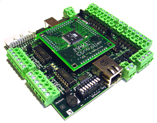 The MakeThings Controller Kit. The top controller board has an Atmel AT91SAM7X256 ARM-based microcontroller.